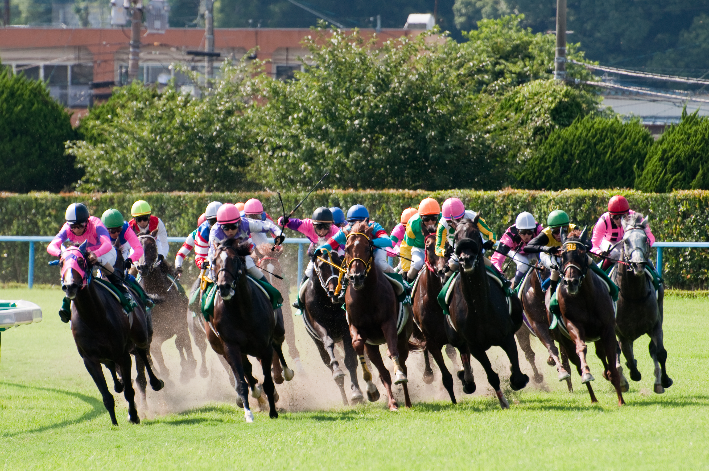 46th Kokura Kinen (2010-08-01)